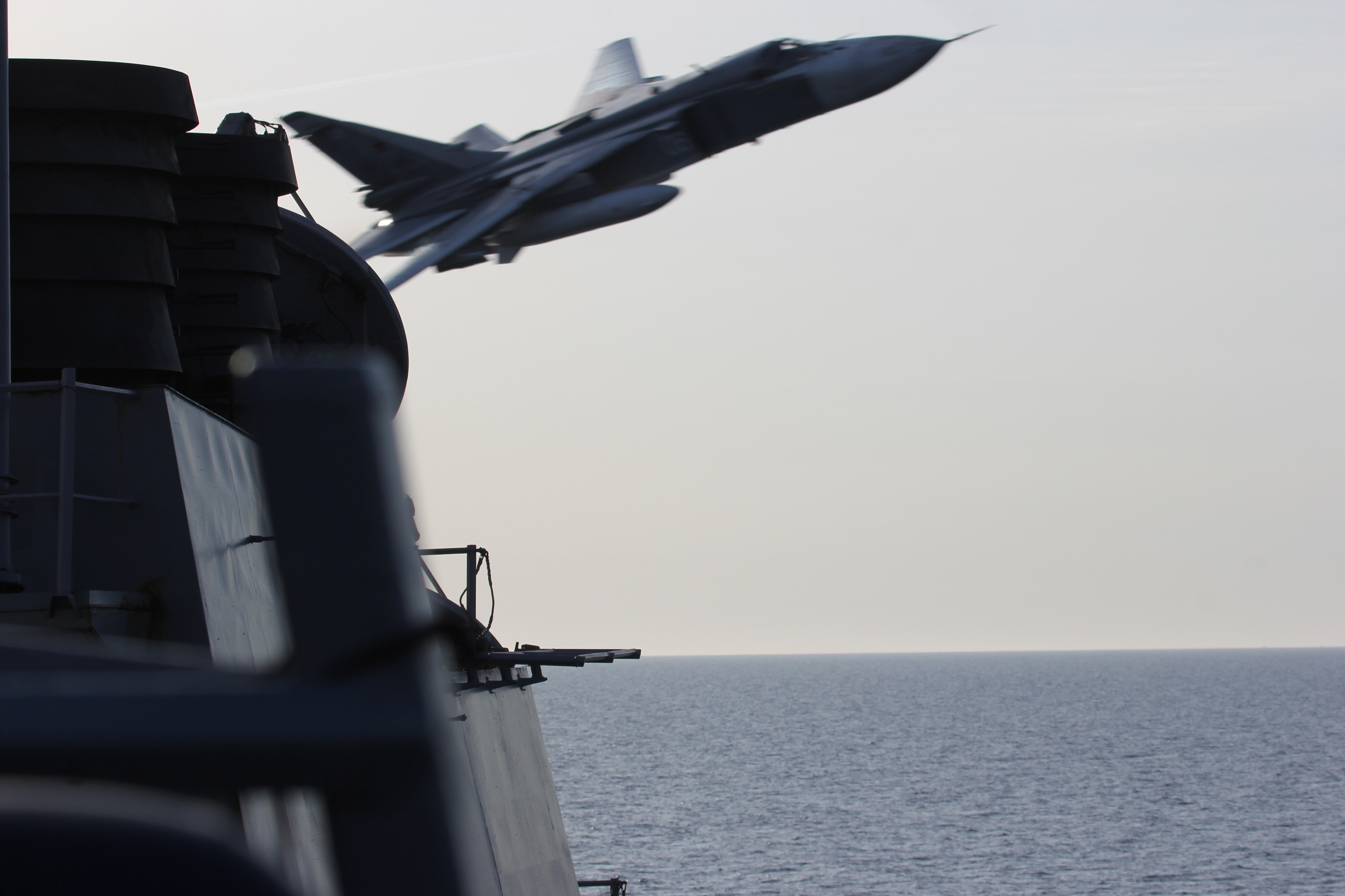 A Russian Sukhoi Su-24 attack aircraft makes a very-low altitude pass by the USS Donald Cook (DDG 75) April 12, 2016. Donald Cook, an Arleigh Burke-class guided-missile destroyer, forward deployed to Rota, Spain is conducting a routine patrol in the U.S. 6th Fleet area of operations in support of U.S. national security interests in Europe.